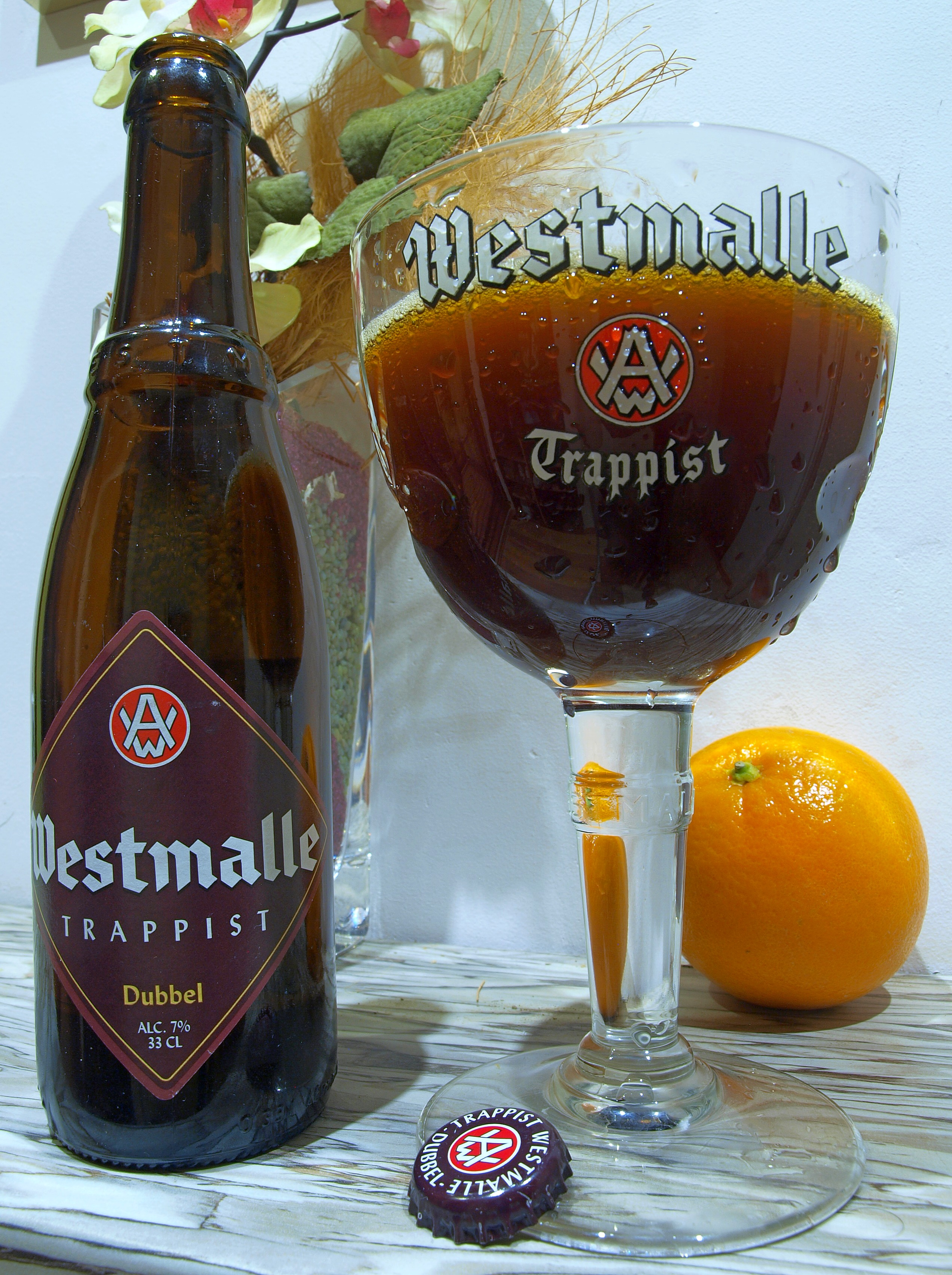 Belgian beer